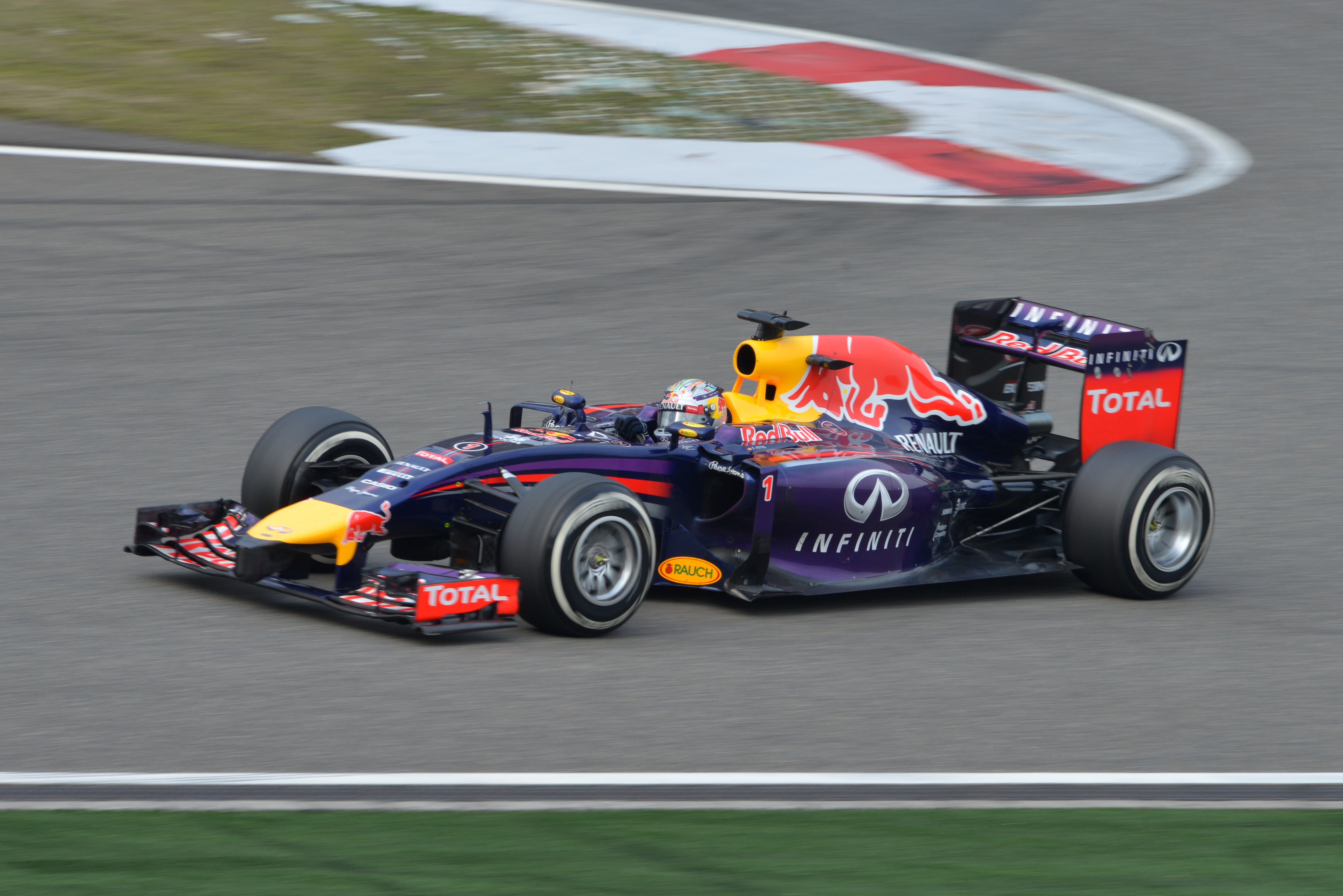 Sebastian Vettel (Red Bull)